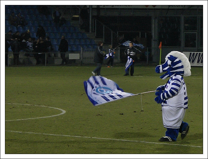 Mascotte of professional soccer team De Graafschap (town of Doetinchem). Picture taken at friday 17th of march. Game: Graafschap - Helmond Sport (2-2)